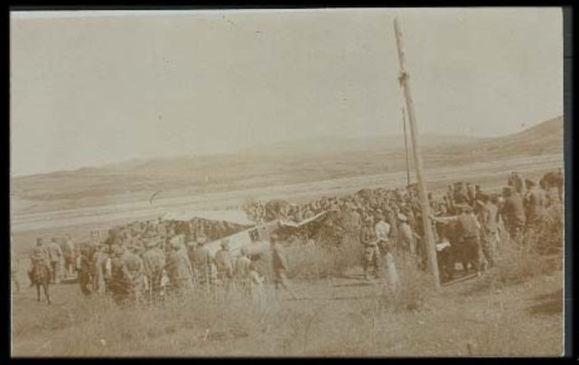 French crashed plane at Miletkovo surrounded by troops. Bulgarian WWI postcard.